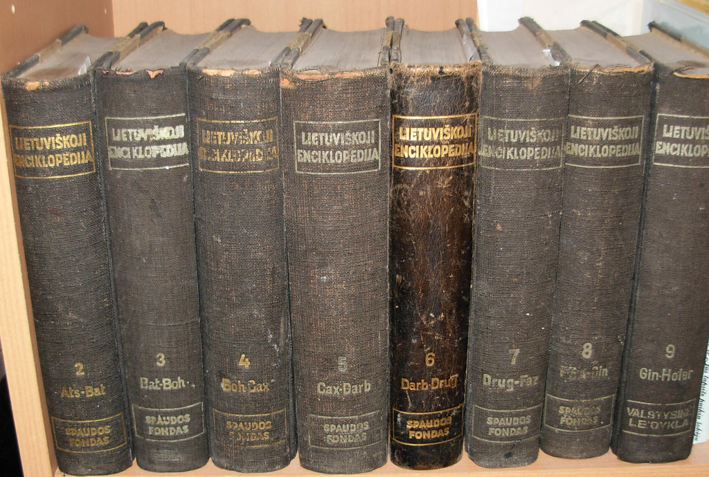 First Lithuanian Encyclopedia